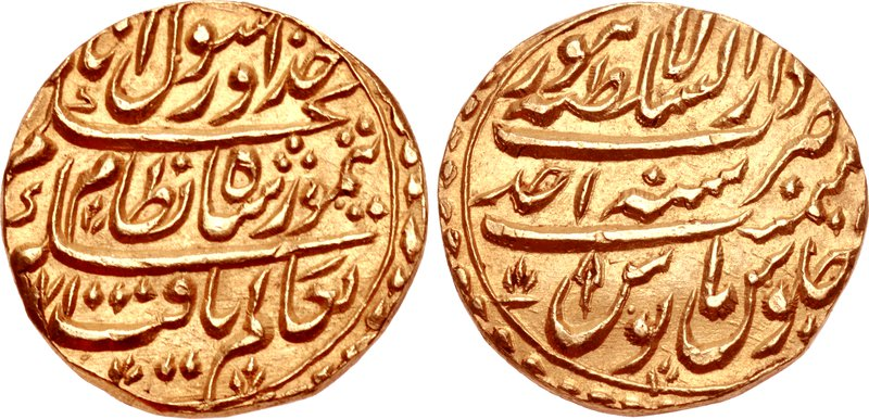 Durranis. Taimur Shah. As Nizam of the Punjab, AH 1170-1186 / AD 1757-1772. AV Mohur (22mm, 10.92 g, 3h). Dar al-Sutanat Lahore mint. Dated AH [11]71; RY “ahd” (AD 1757/8). Persian couplet citing Taimur Shah in six lines; AH date to left, partially off flan / Mint and RY formula in six lines. Album A3097; Friedberg 3; KM 629. EF. Very rare.